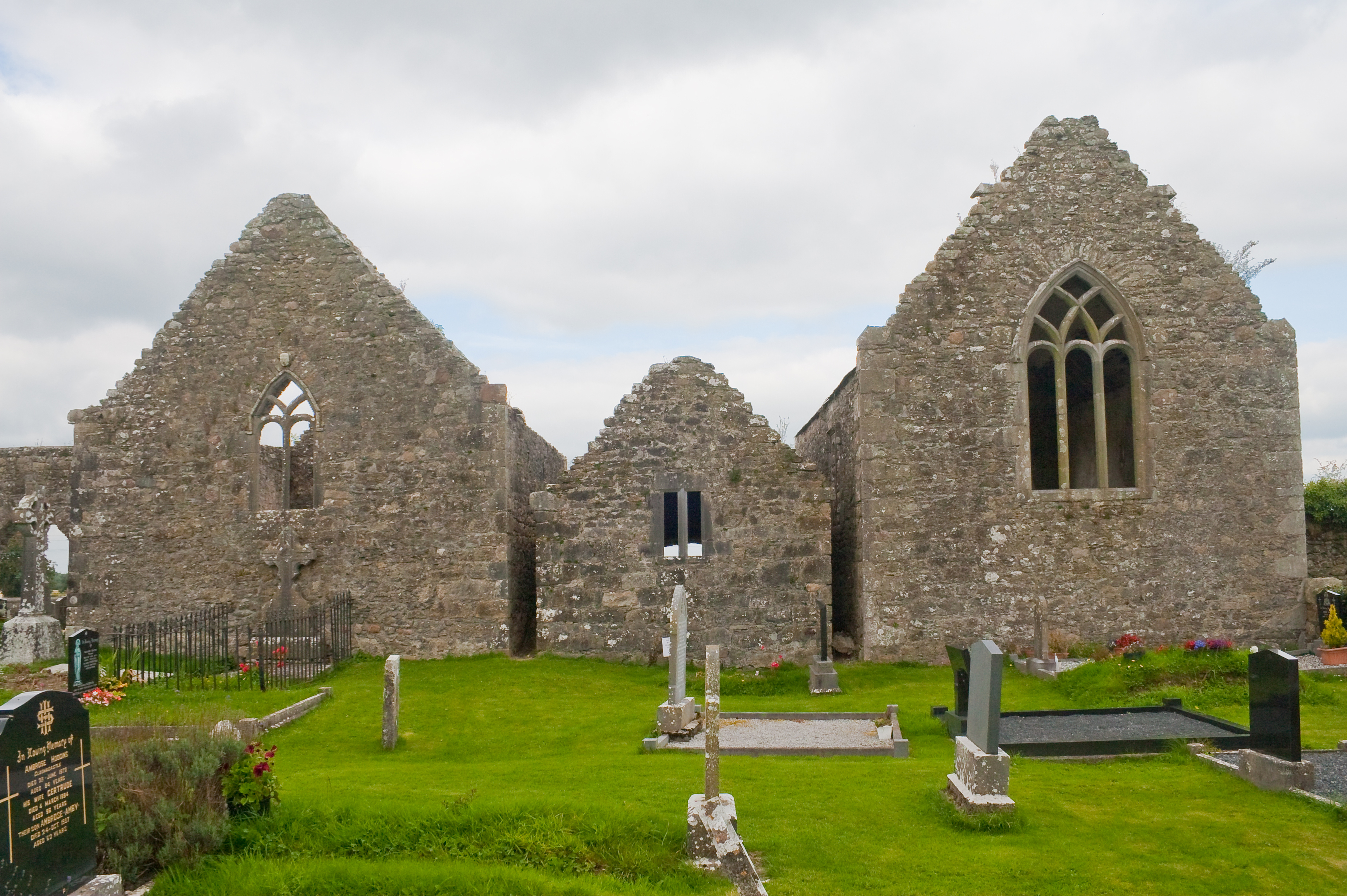 Kinalehin Friary, County Galway, Ireland Side chapels of Kinalehin Friary, as seen from the south.